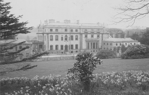 Tehidy House, Illogan, Cornwall, photographed circa 1916